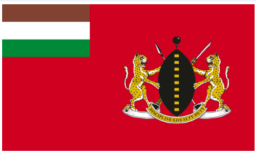 Transkei Defence Force Flag